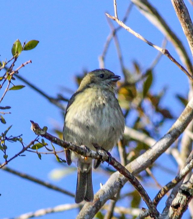 Antillean Siskin (Spinus dominicensis), Sierra Baerucu National Park, Dominican Republic